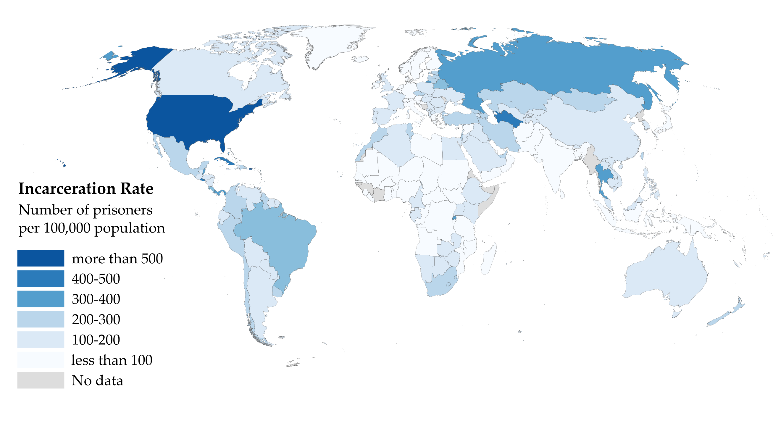 Map of incarceration rates worldwide by country. Data from: Highest to Lowest. By World Prison Brief.